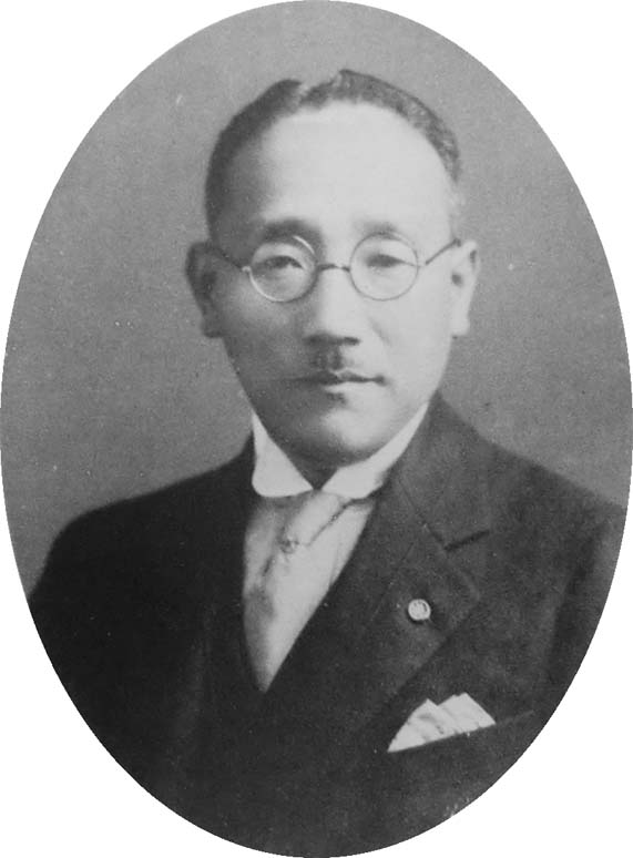 Kazu Norisugi, current director of the Tokyo Academy of Music.